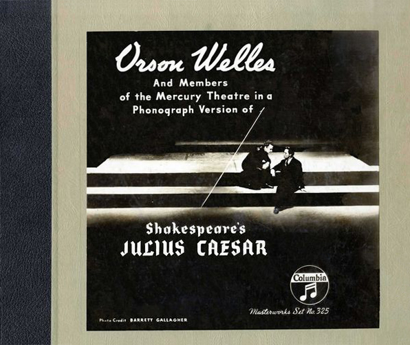 Front cover, including pasteboard and binding, of the Columbia Masterworks Records Set No. 325, Shakespeare: The Tragedy of Julius Caesar (Mercury Theatre Version). Photograph depicts (from left) Martin Gabel and Orson Welles.